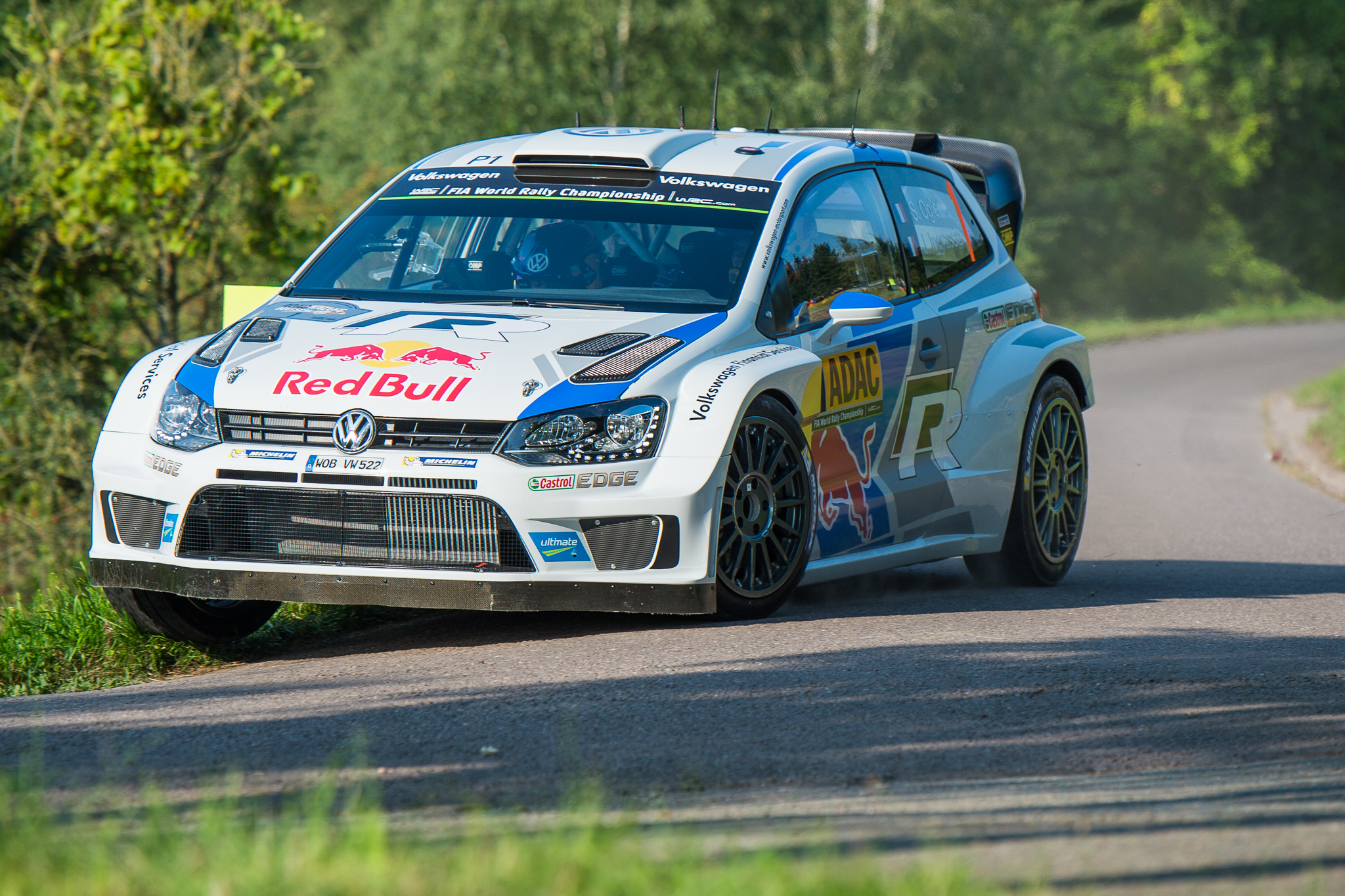 ADAC Rallye Deutschland 2014,FIA,FIA World Rally Championship,Julien Ingrassia,Motorsport,Rally,Rallye,Sebastien Ogier,Shakedown,VW Polo WRC,Volkswagen Motorsport,Volkswagen Polo WRC,WRC